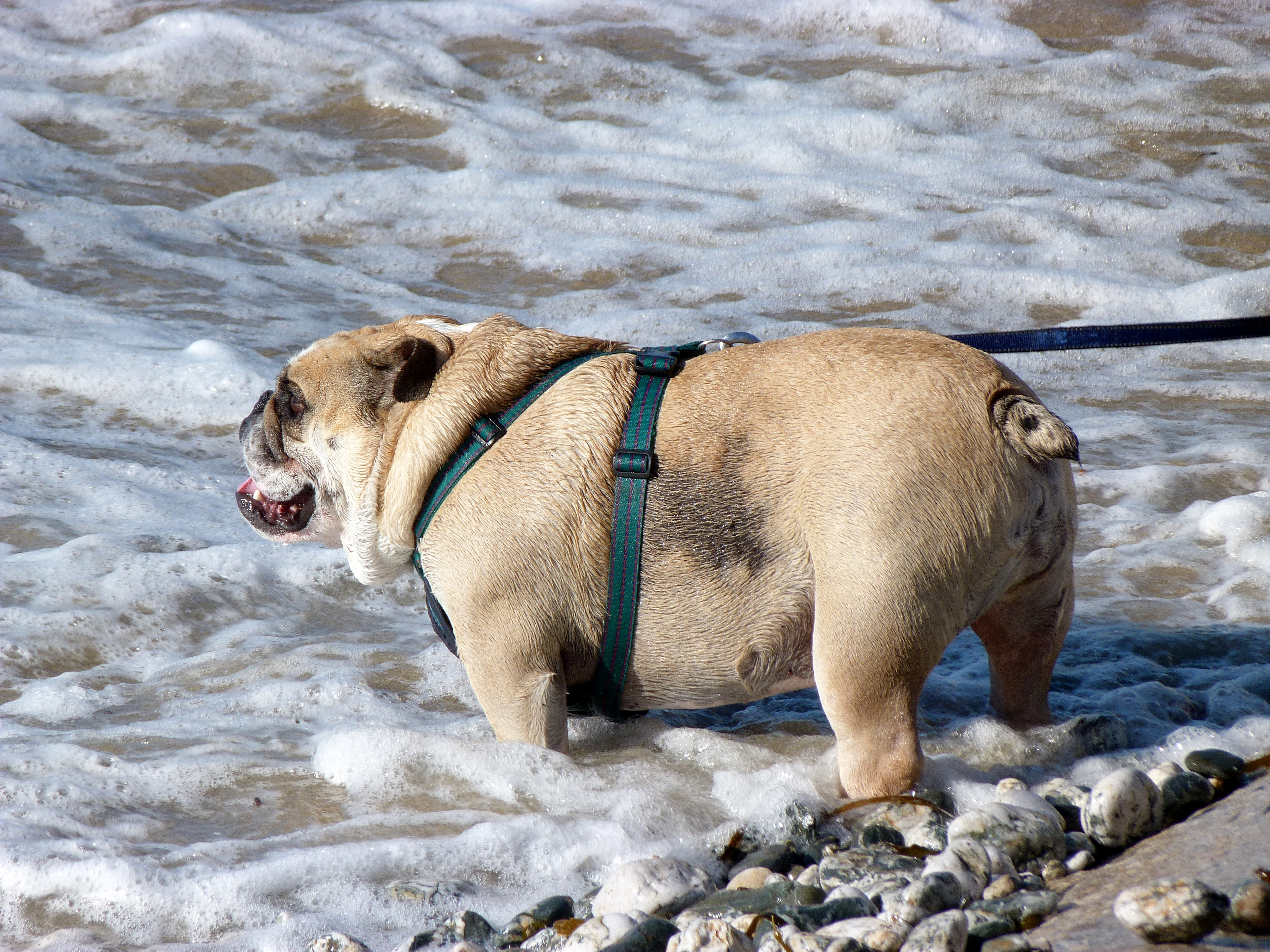 A friendly little chap who loved the sea